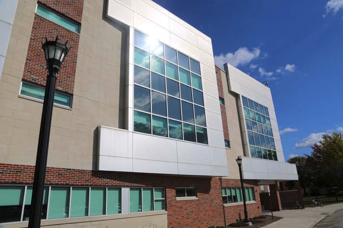 Cooper Hall